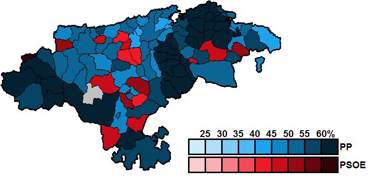 Most-voted party in Cantabria municipalities, showing vote share obtained, in the Spanish general election, 1996.